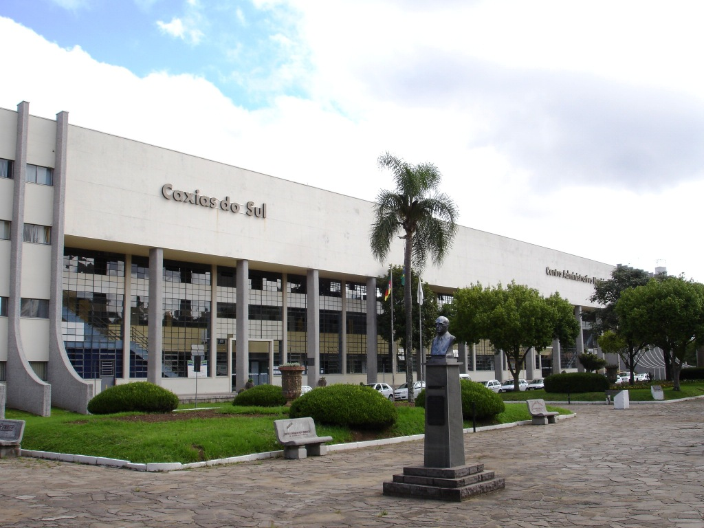 City Hall of Caxias do Sul